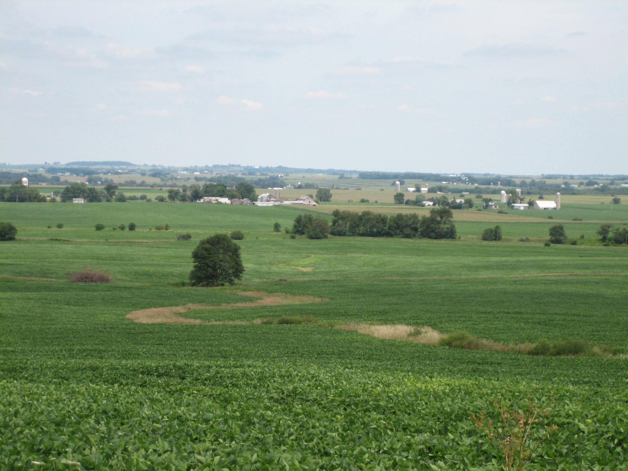 Scenic vista near the unincorporated community of Kent, Illinois, USA and the Kellogg's Grove battle site (Black Hawk War). Rural Stephenson County, Illinois.